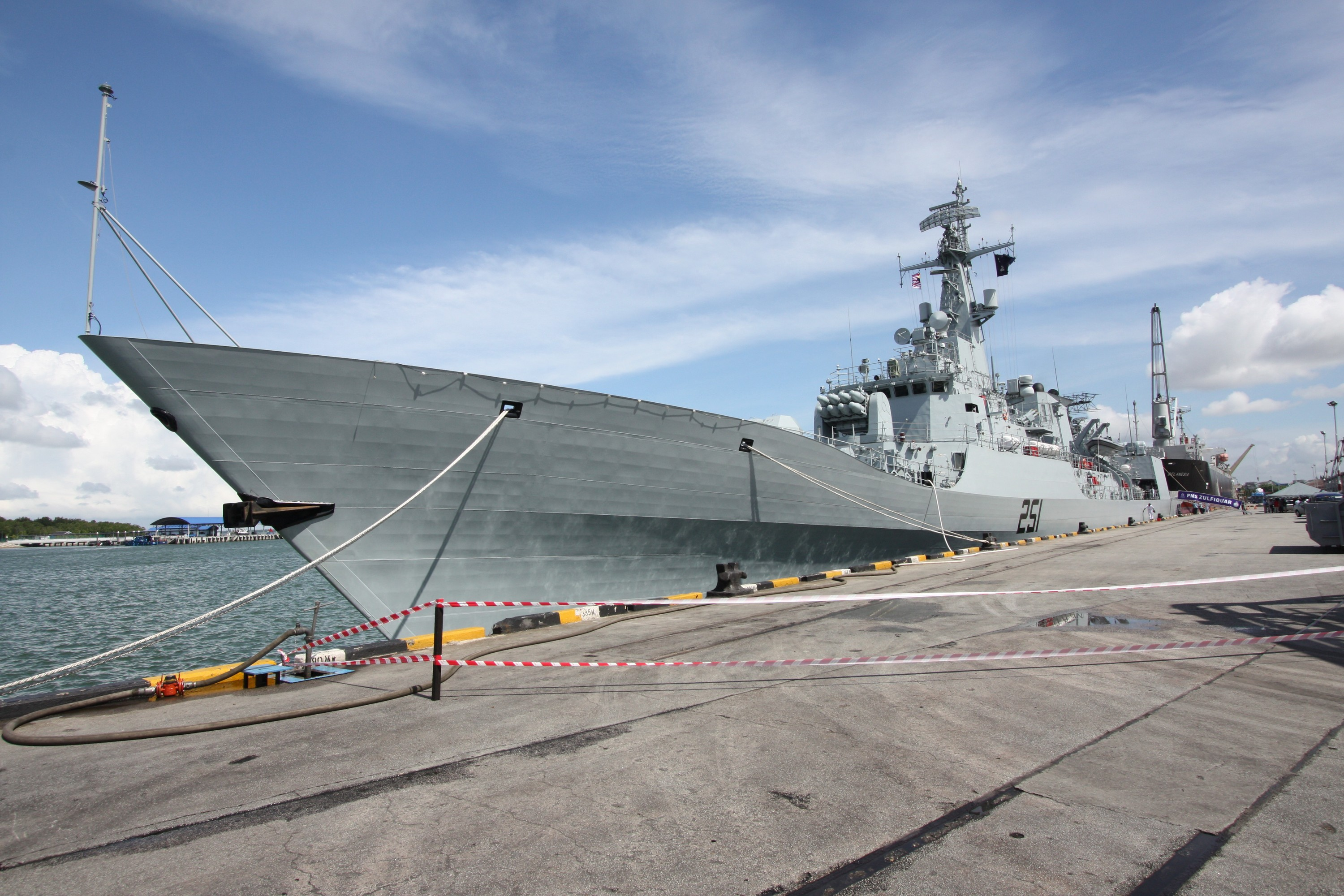 Pakistan navy frigate F-22P Zulfiquar visit to Port Klang,Malaysia.